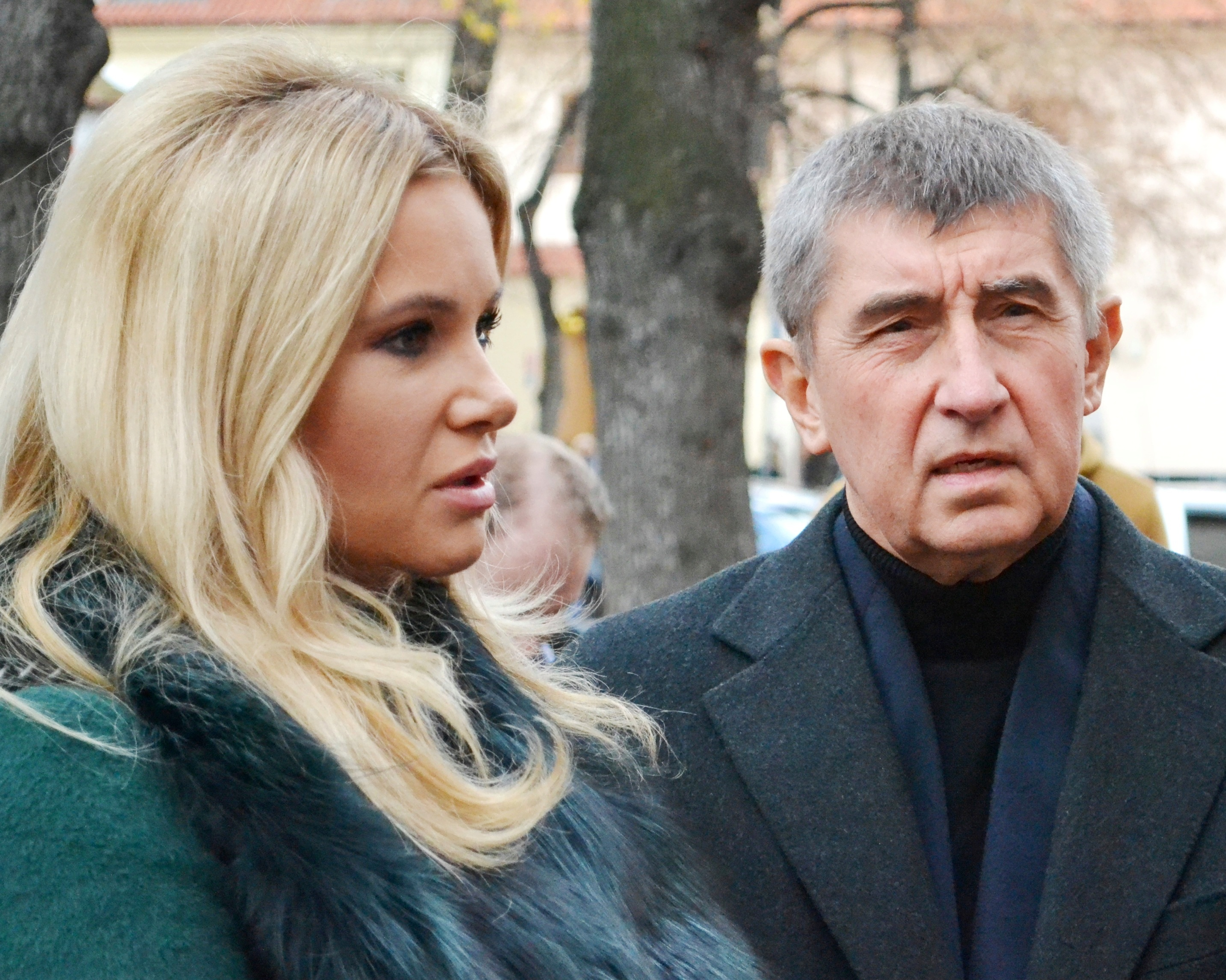 Andrej Babiš, Minister of Finance of the Czech Rep. and Monika Babišová